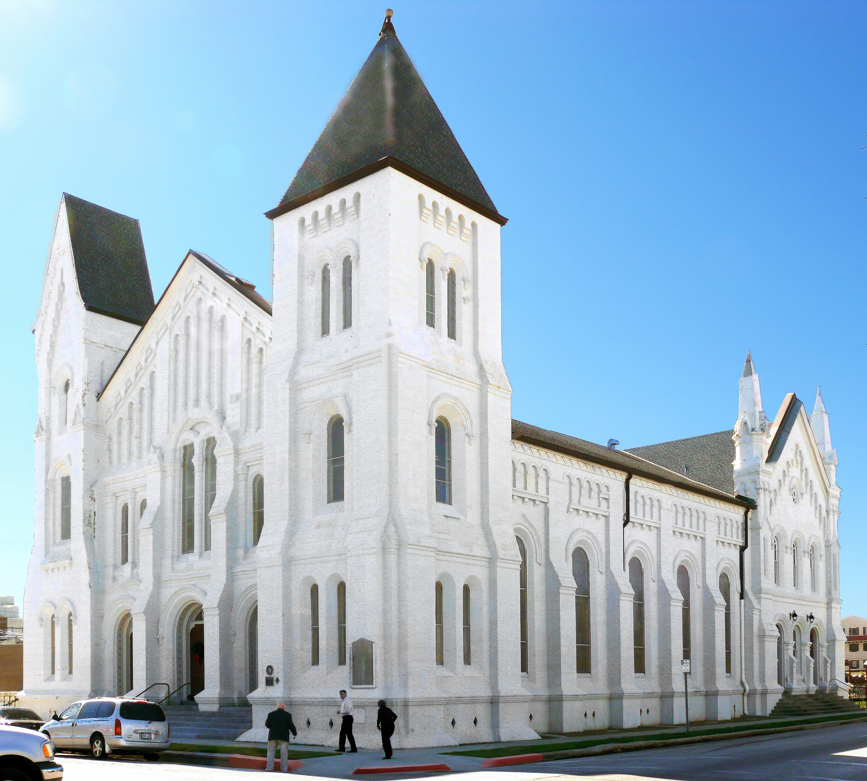 Present structure started 1872; completed 1889. Following its escape from the great fire of 1885, church housed classes from schools which had burned.